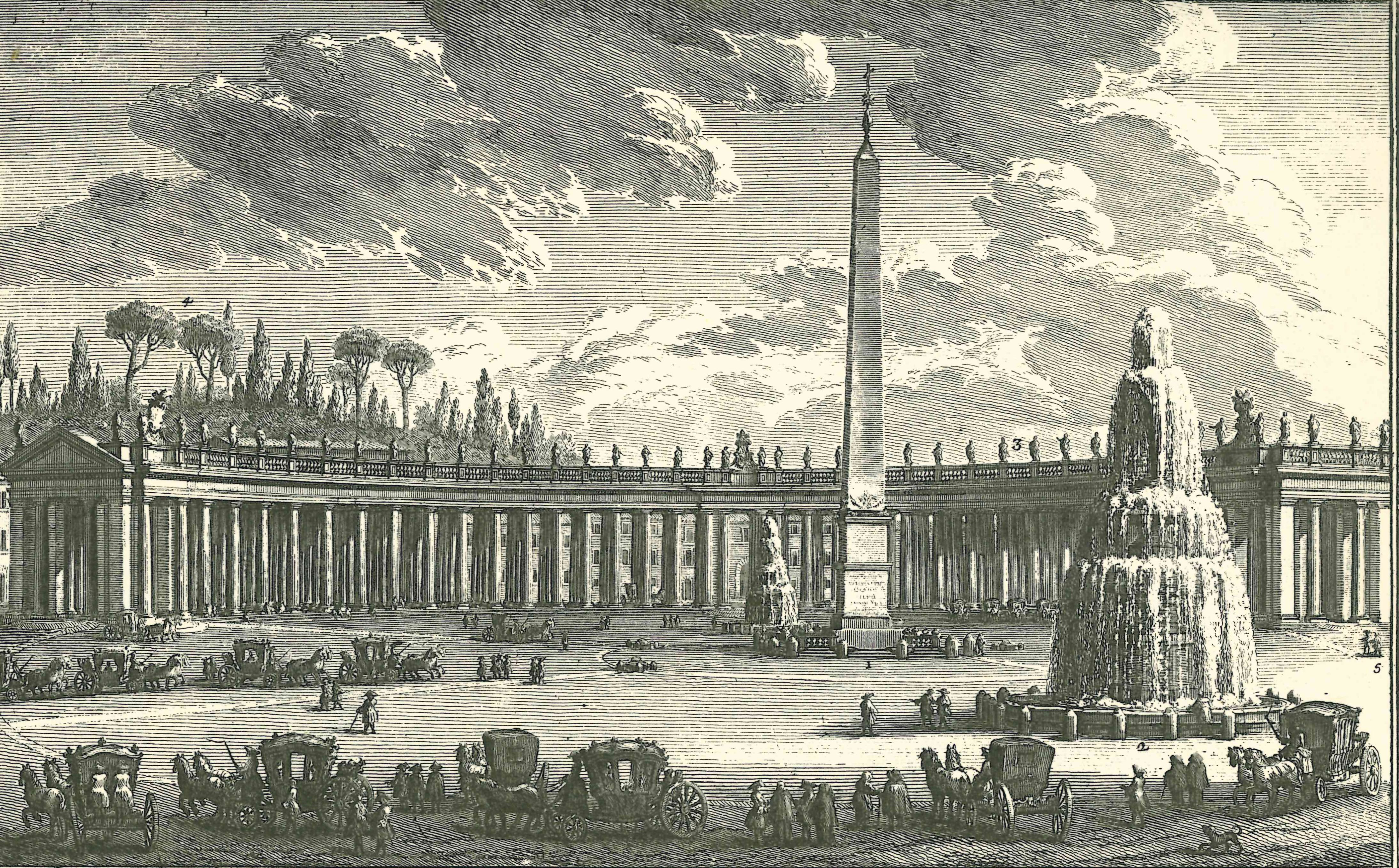 St. Peter's Square in Rome in around 1742Table from Vol 2 of Delle magnificenze di Roma antica e modern, Roma: 1747, by Giuseppe Vasi (1710-1782). Caption: "La Piazza San Pietro"